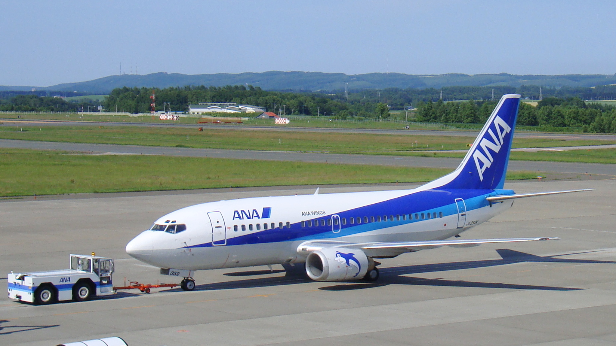 All Nippon Airways(ANA Wings) Boeing 737-500 JA352K